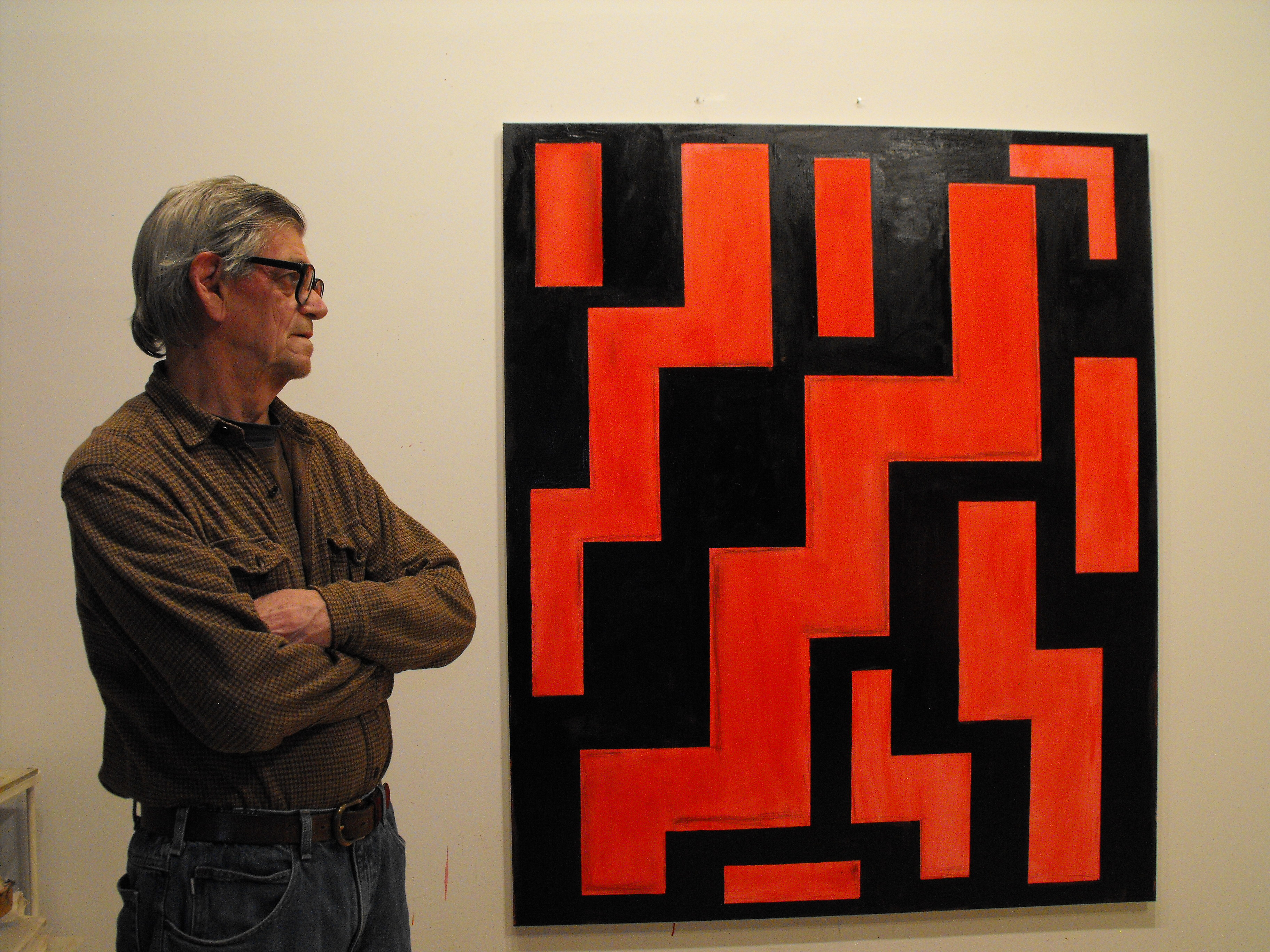 It is a photograph of Thornton Willis, the artist, standing in front of his painting "The Ceremony" in his studio in NYC, January 31, 2013.